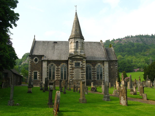 Logie Kirk The ruin of the original Logie Church stands 500m to the north of this church. This parish church was built in 1805 and extended in 1901.